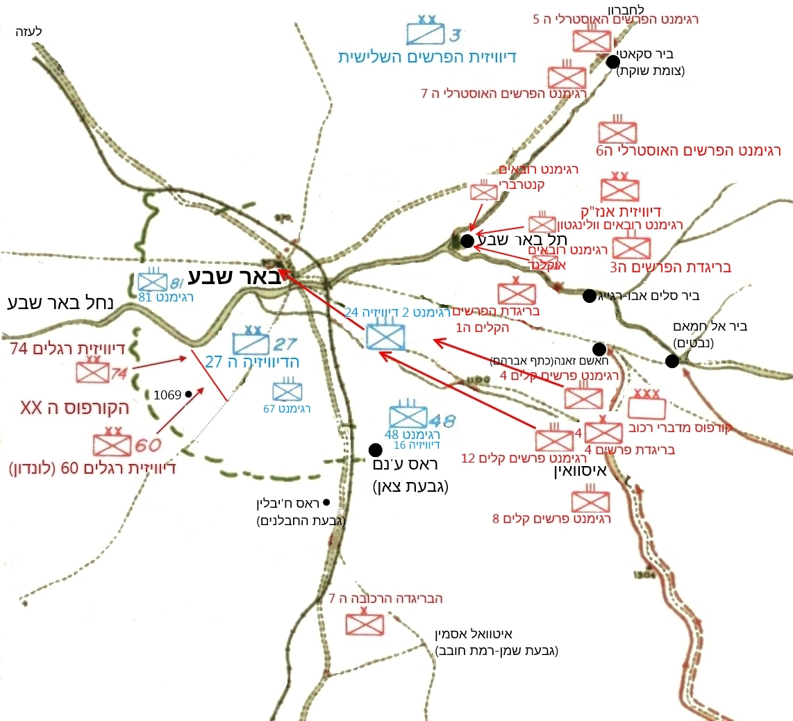 map of the 1917 battle of beersheba, hebrew language.